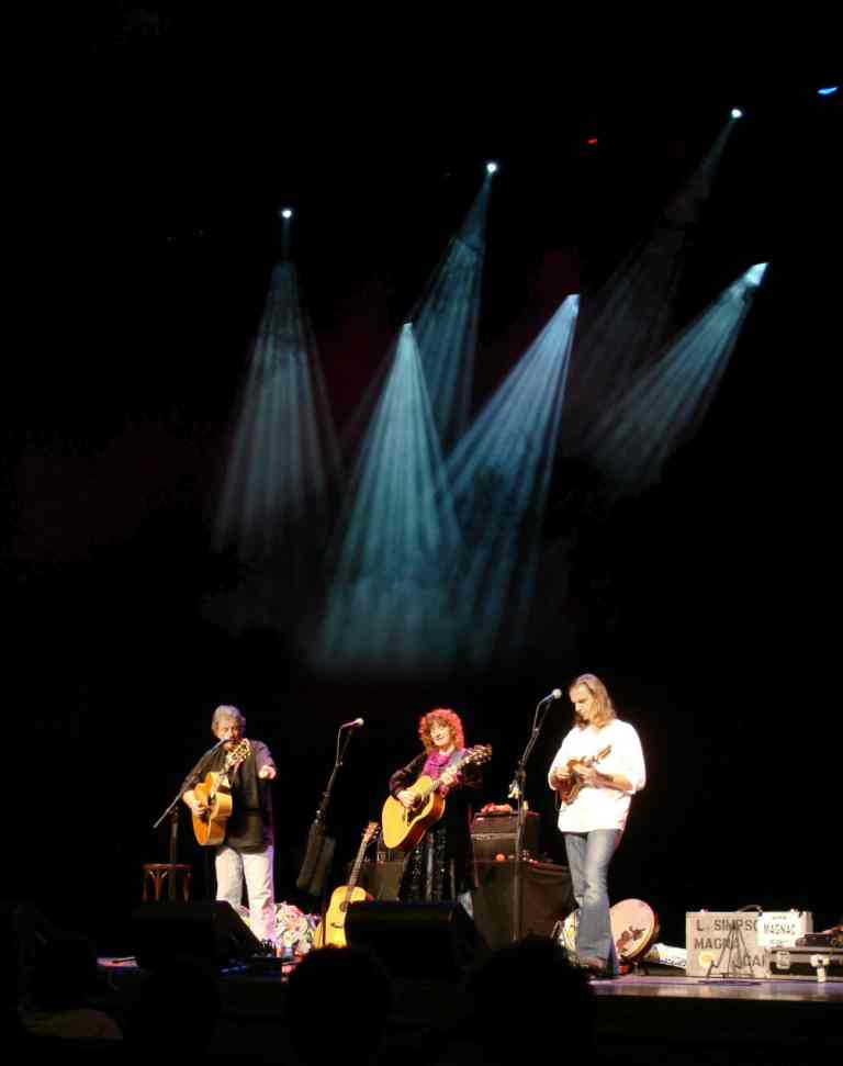 Magna Carta live (constructed)